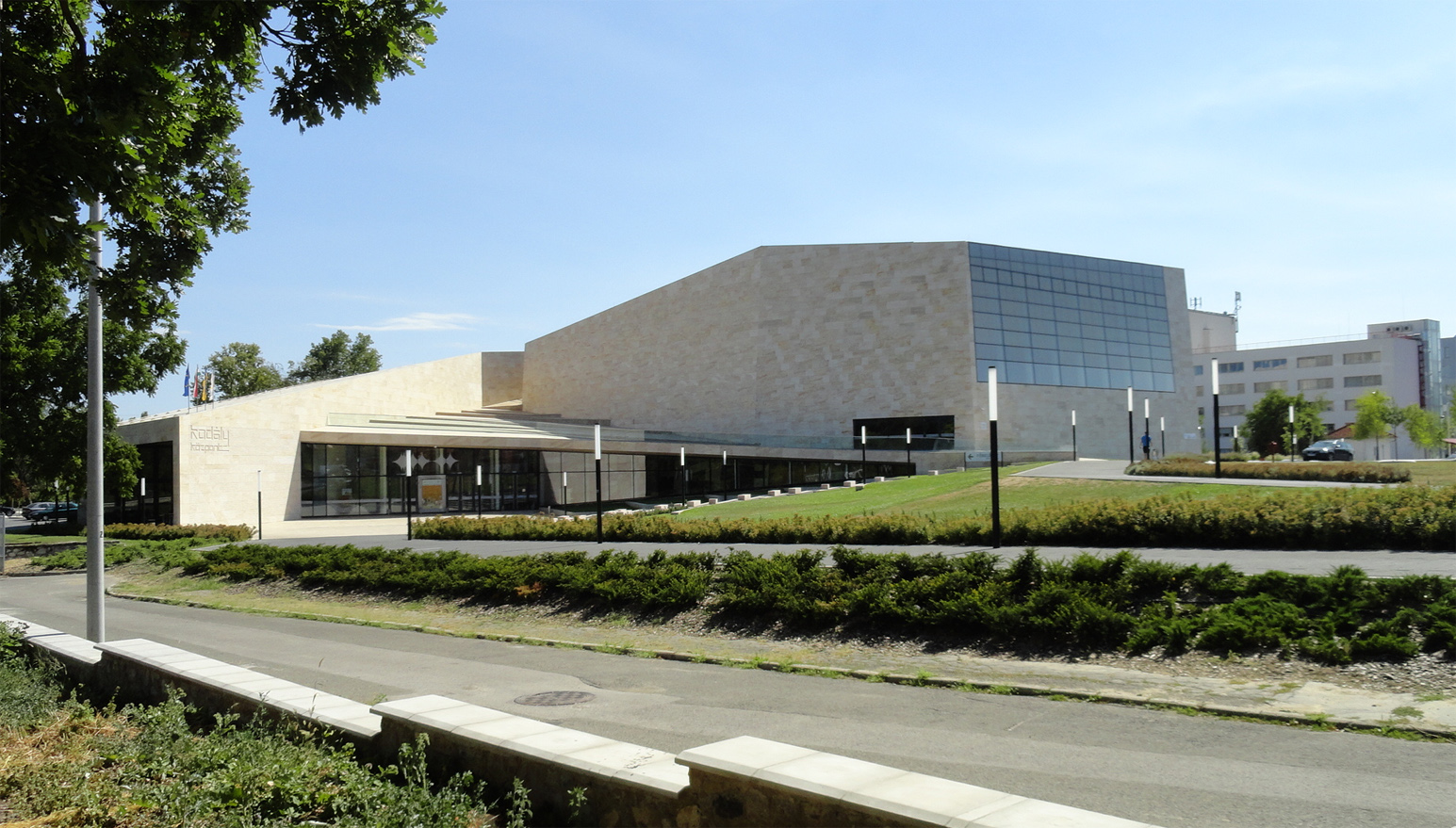 Kodály Centre - Pécs (Baranya County, Hungary)